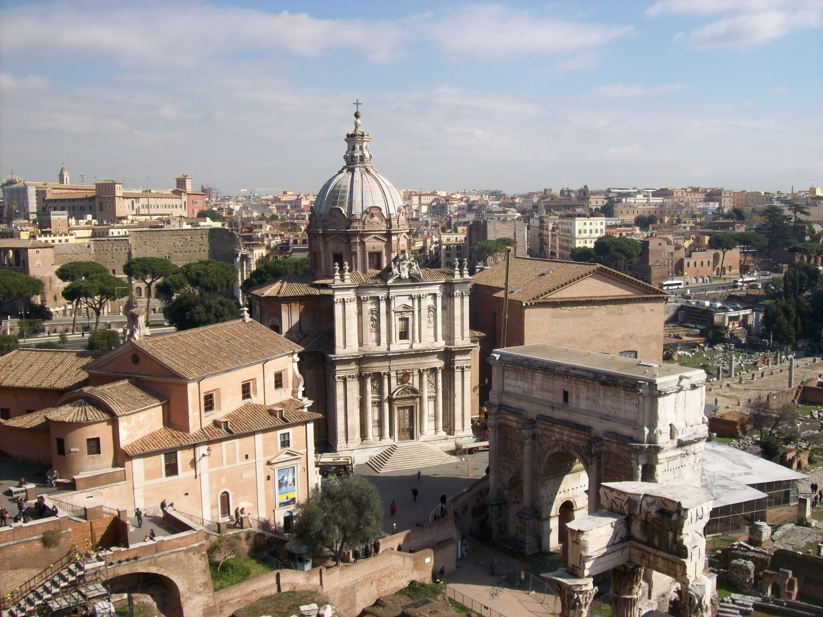 A view of the Roman Forum seen from a window of the Palazzo Senatorio: at the centre the church of St. Martina and Luca; at the lower right corner the Arch of Septimius Severus